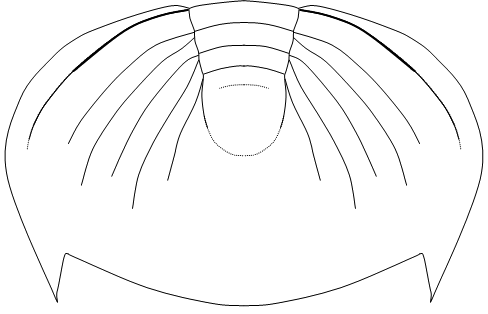 A drawing of the pygidium of Dikelocephalus minnesotensis, Order Asaphida, family Dikelocephalidae, final stage of the Upper Cambrian